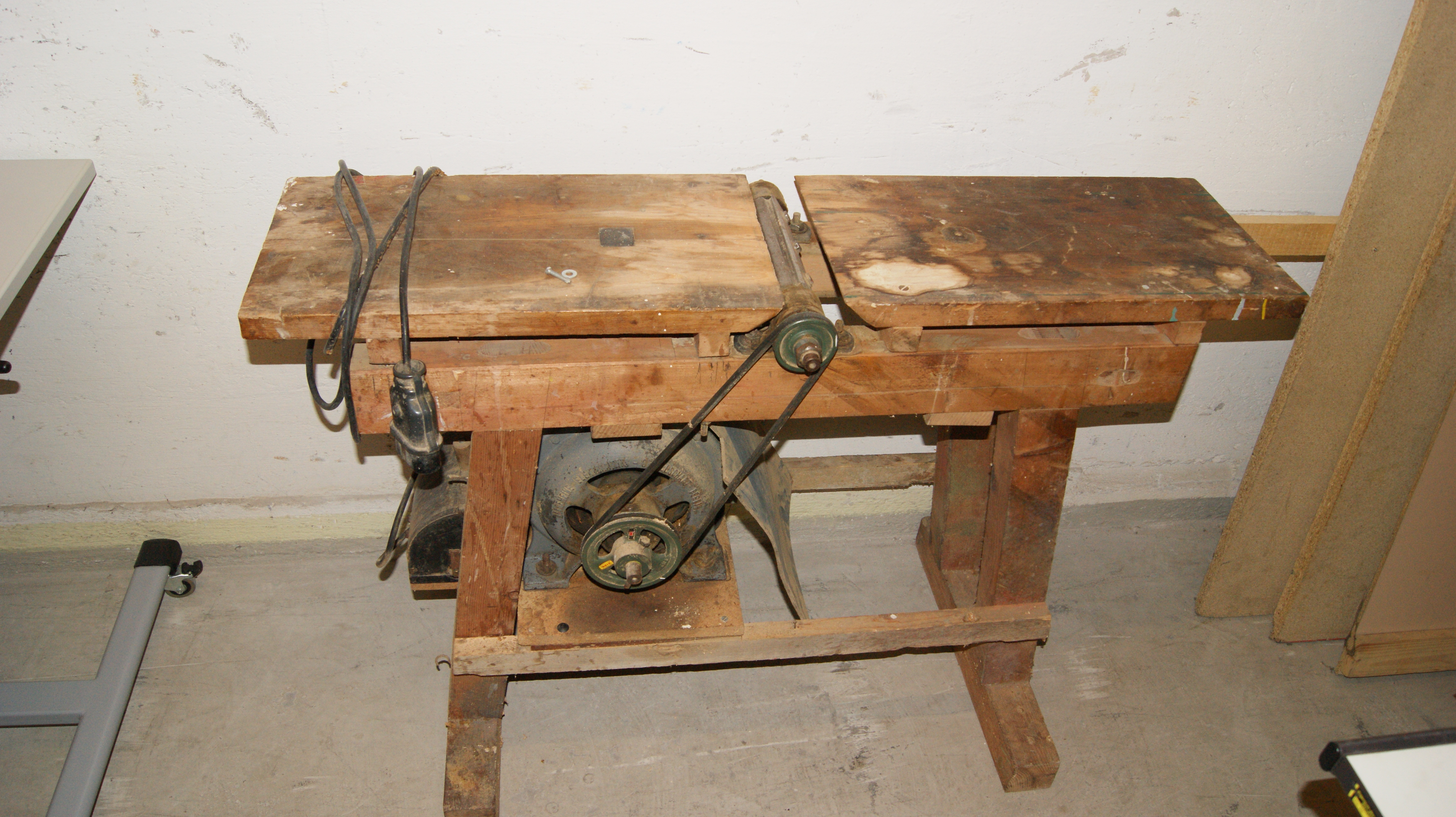 Vocational school Dornbirn I in Dornbirn, Vorarlberg, Austria. Own construction surface planer, year of construction: unknown.